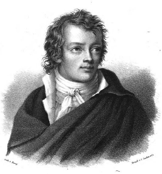 Author and literary historian Franz Horn (1781-1837) in a lithography by August Remy (1800-1872).